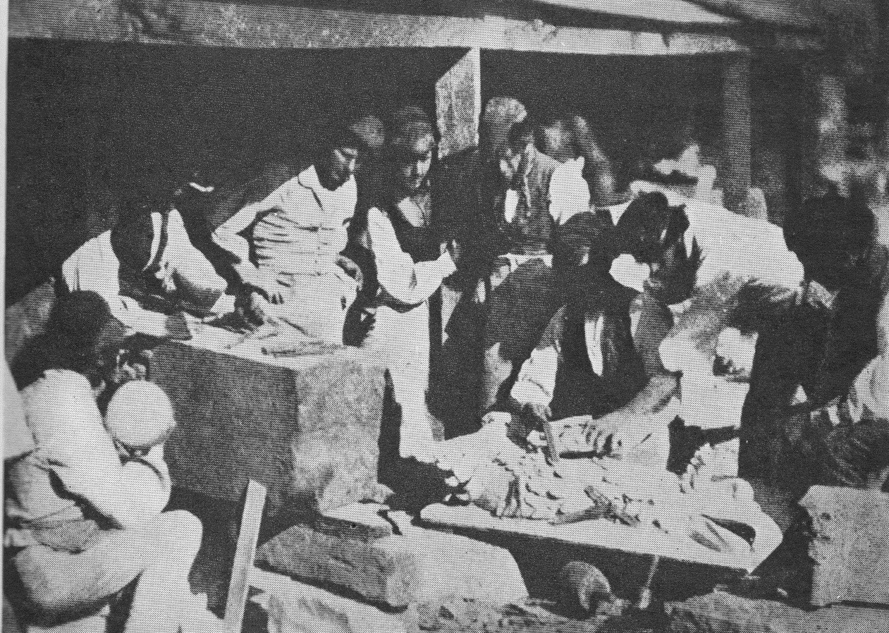 A Hill & Adamson calotype.